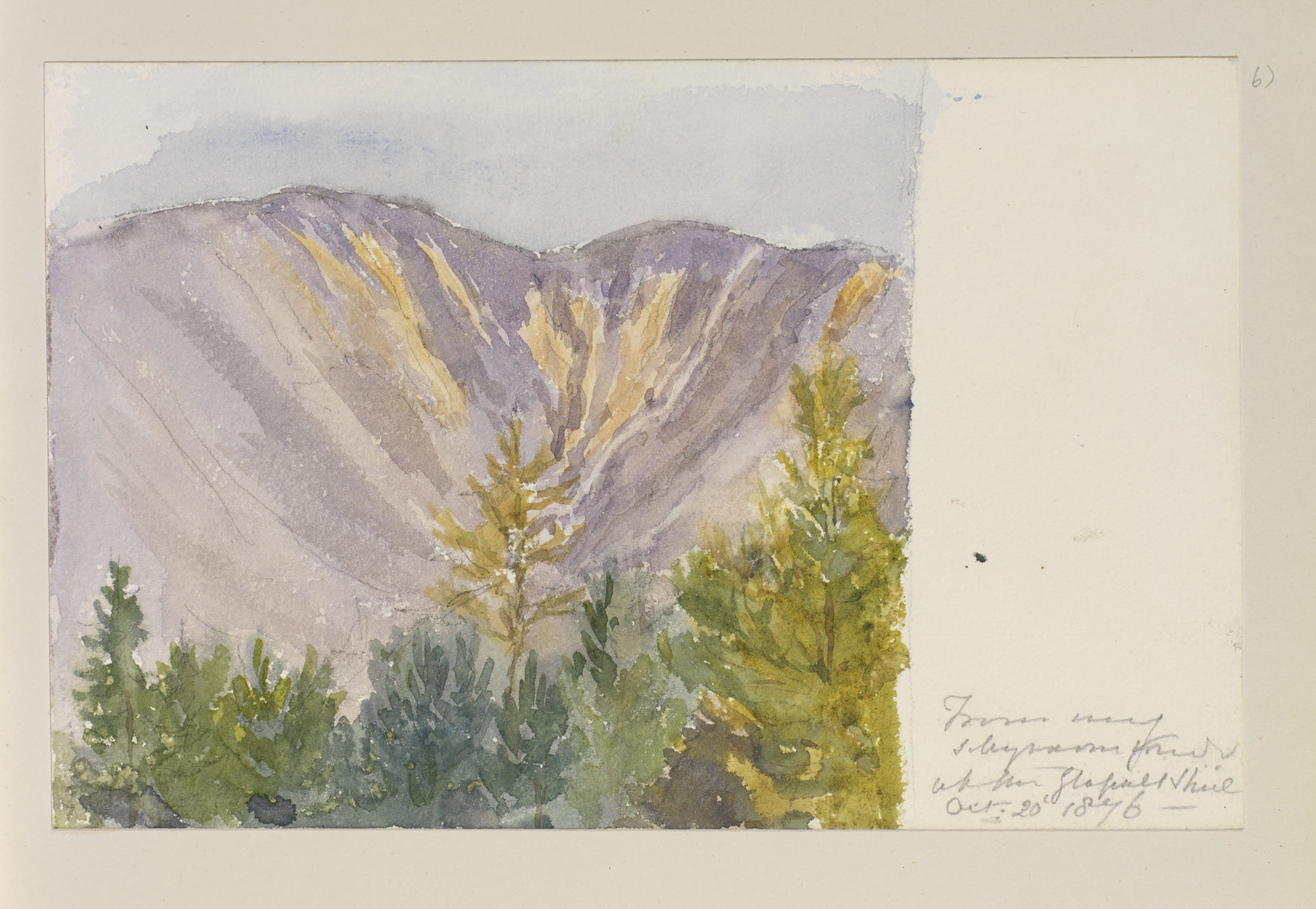 Queen Victoria, Queen of the United Kingdom (1819-1901) From my [sitting] room wind[o]w at the Glassalt Shiel dated 20 Oct 1876 Pencil, watercolour | RCIN 980043.bt A watercolour showing a view of a Highland landscape from the Glas-allt-Shiel. Fir trees are shown in the foreground, with a steep hill shown behind. Inscribed lower right: From my [sitting] room wind[o]w at the Glassalt Shiel Oct: 20 1876. Queen Victoria stayed at the Glas-allt-Shiel from 18 to 21 October 1876.